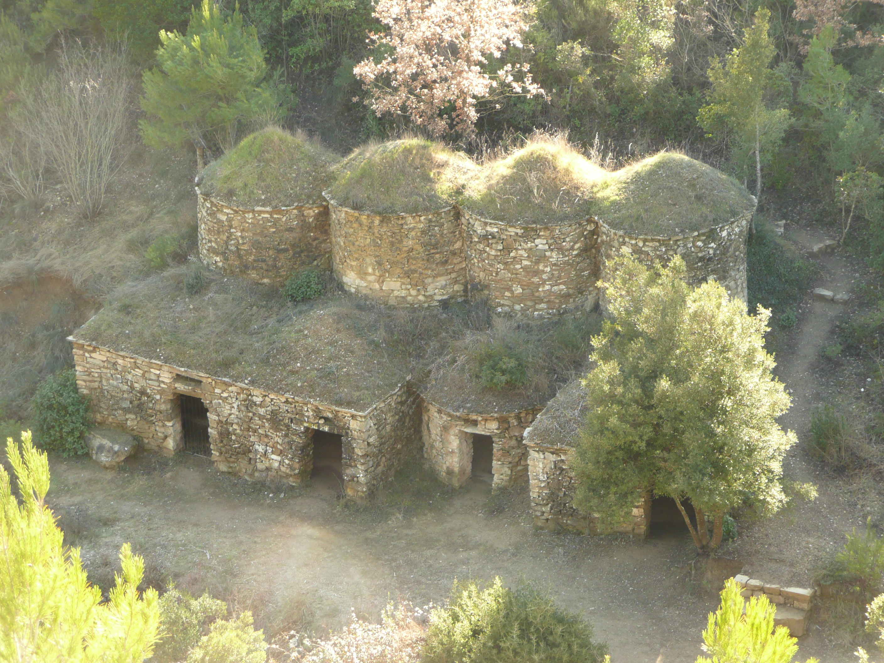 General view of four press wine of Bleda II (Pont de Vilomara i Rocafort, Barcelona, España).